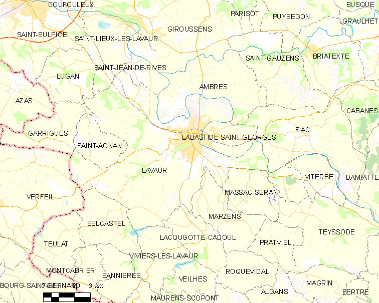 Map of French municipality Lavaur